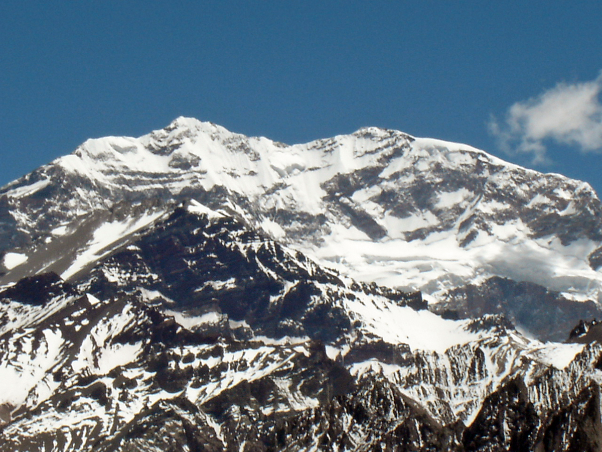 Aconcagua summit, view from helicopter, ARG